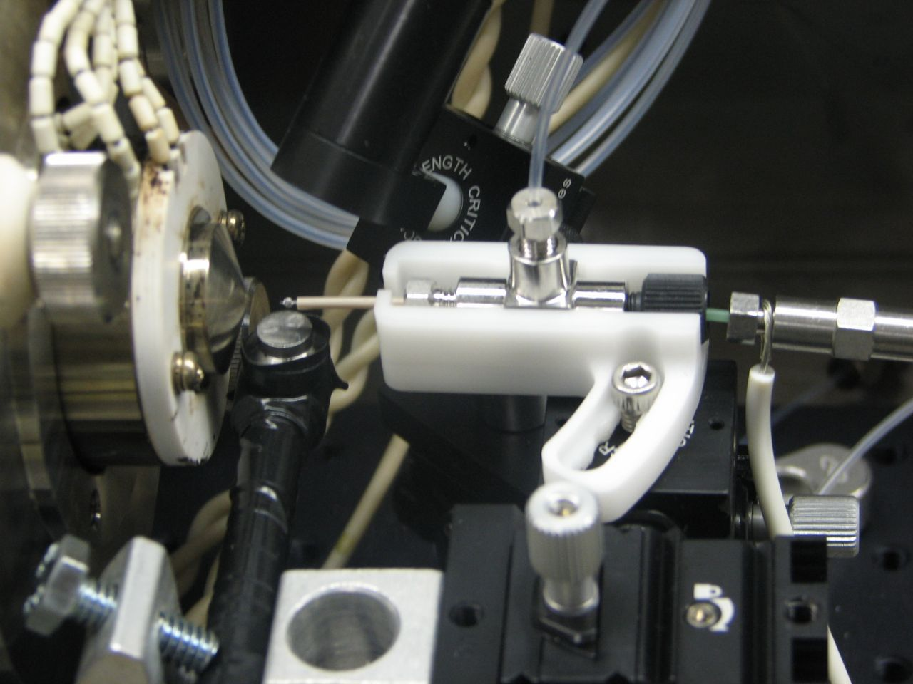 Ion source for ambient mass spectrometry employing a combination of laser desorption and electrospray. The sample is deposited on a metal target (left) and irradiated with a pulsed infrared laser through an optical fiber (top left). The desorbed material passes through an electrospray of charged solvent droplets from a pneumatically assisted electrospray (center) and acquires multiple charges before passing into the mass spectrometer inlet (far left).